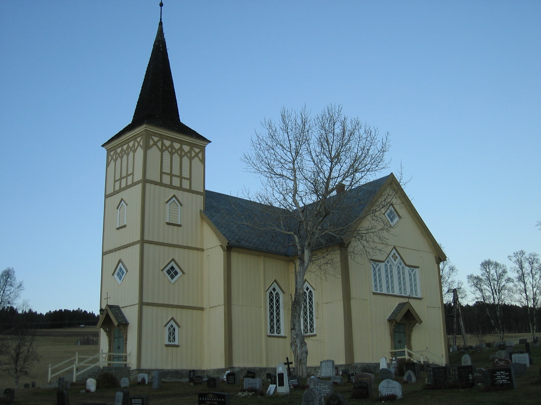 Os Church, Os i Østerdalen, Norway